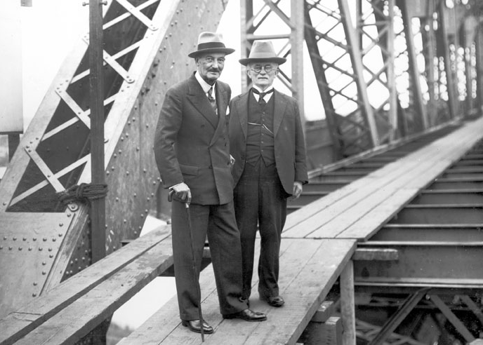 Inspection of the Story Bridge construction by His Excellency, the State Governor Sir Leslie Orme Wilson and Dr John Bradfield. (The Governor is on the left, and Dr Bradfield, the Consulting Engineer on the Story Bridge project, is on the right.)